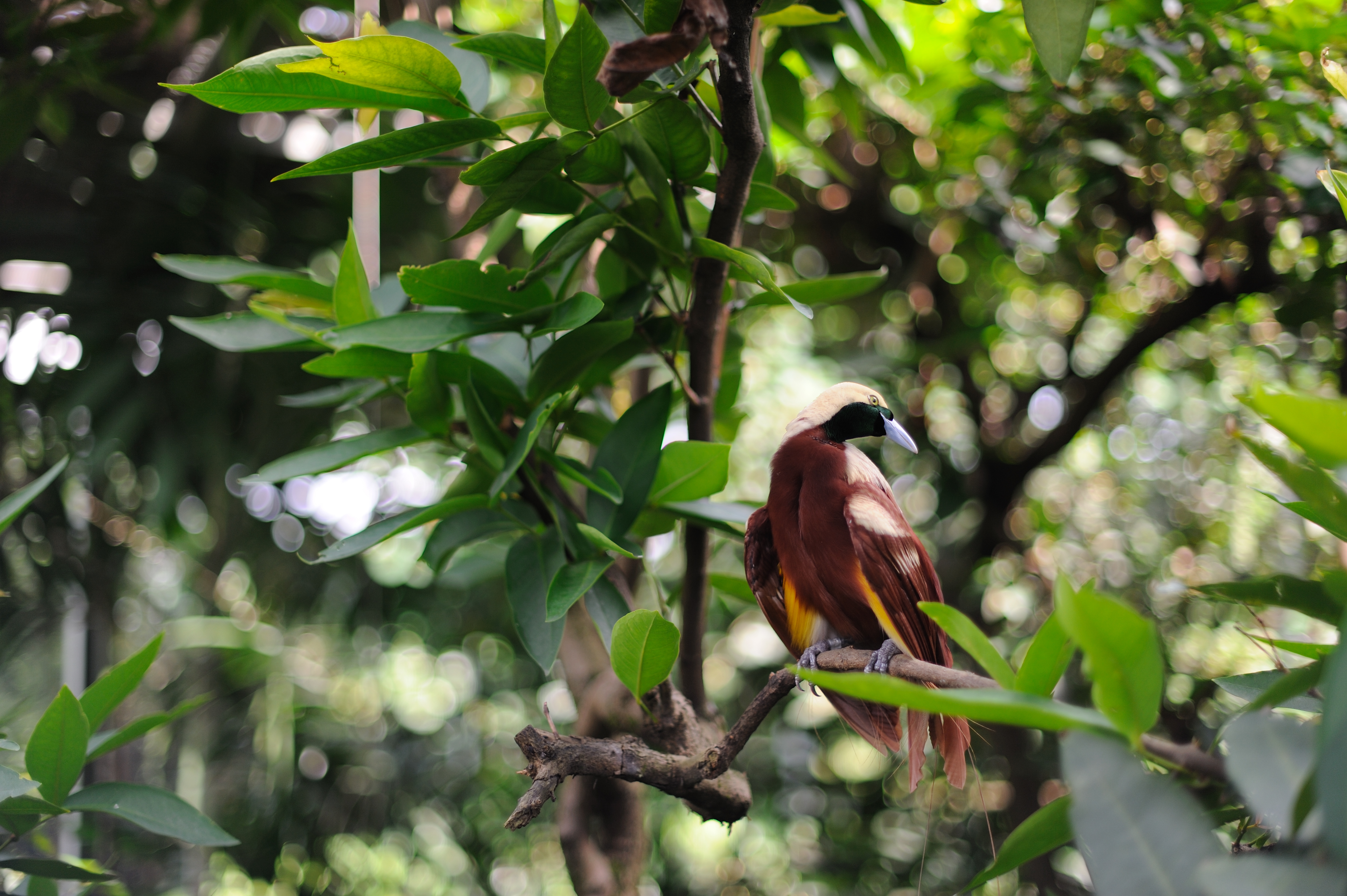 A male Lesser Bird-of-paradise at Jurong Bird Park, Singapore.